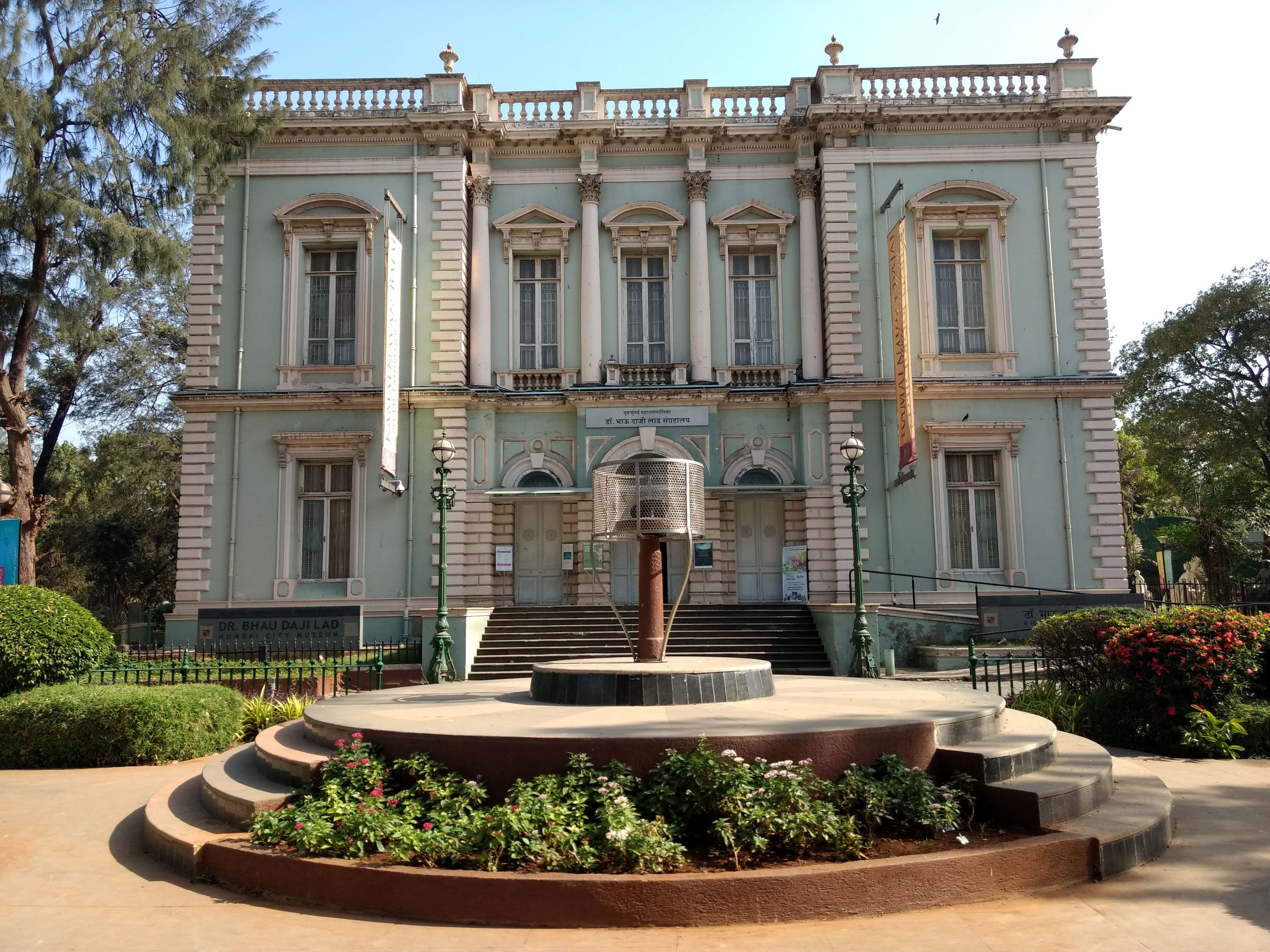 Dr. Bhau Daji Lad Museum, Byculla, Mumbai